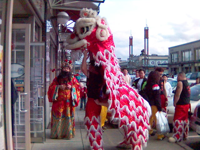 Chinese New Year's celebrations in Richmond, British Columbia, Canada (a suburb of Vancouver). Taken February 5th, 2006 by me (Buchanan-Hermit|).